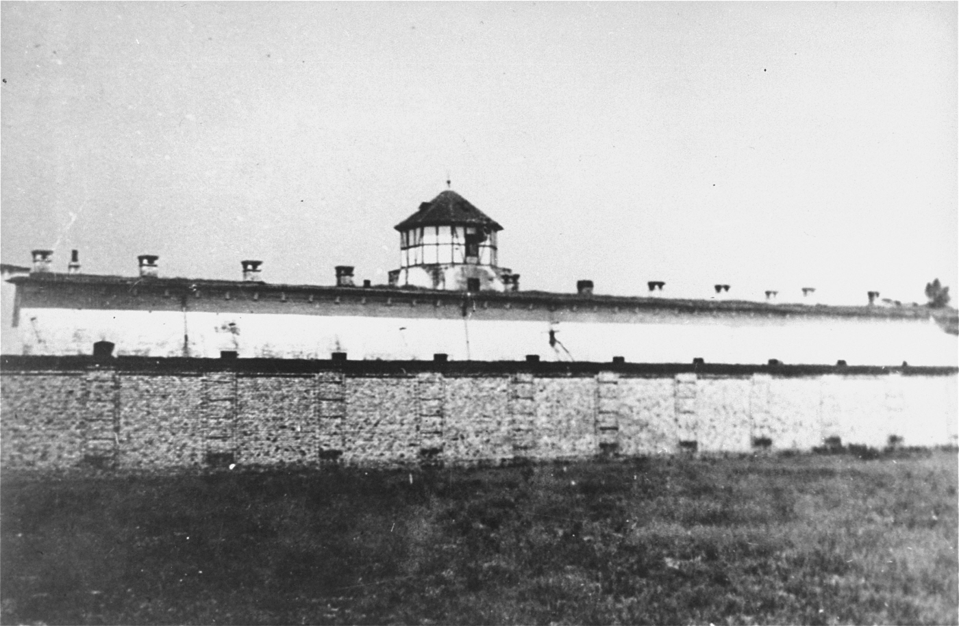 View of the Stara Gradiska concentration camp that was formerly an Austro-Hungarian fortress.